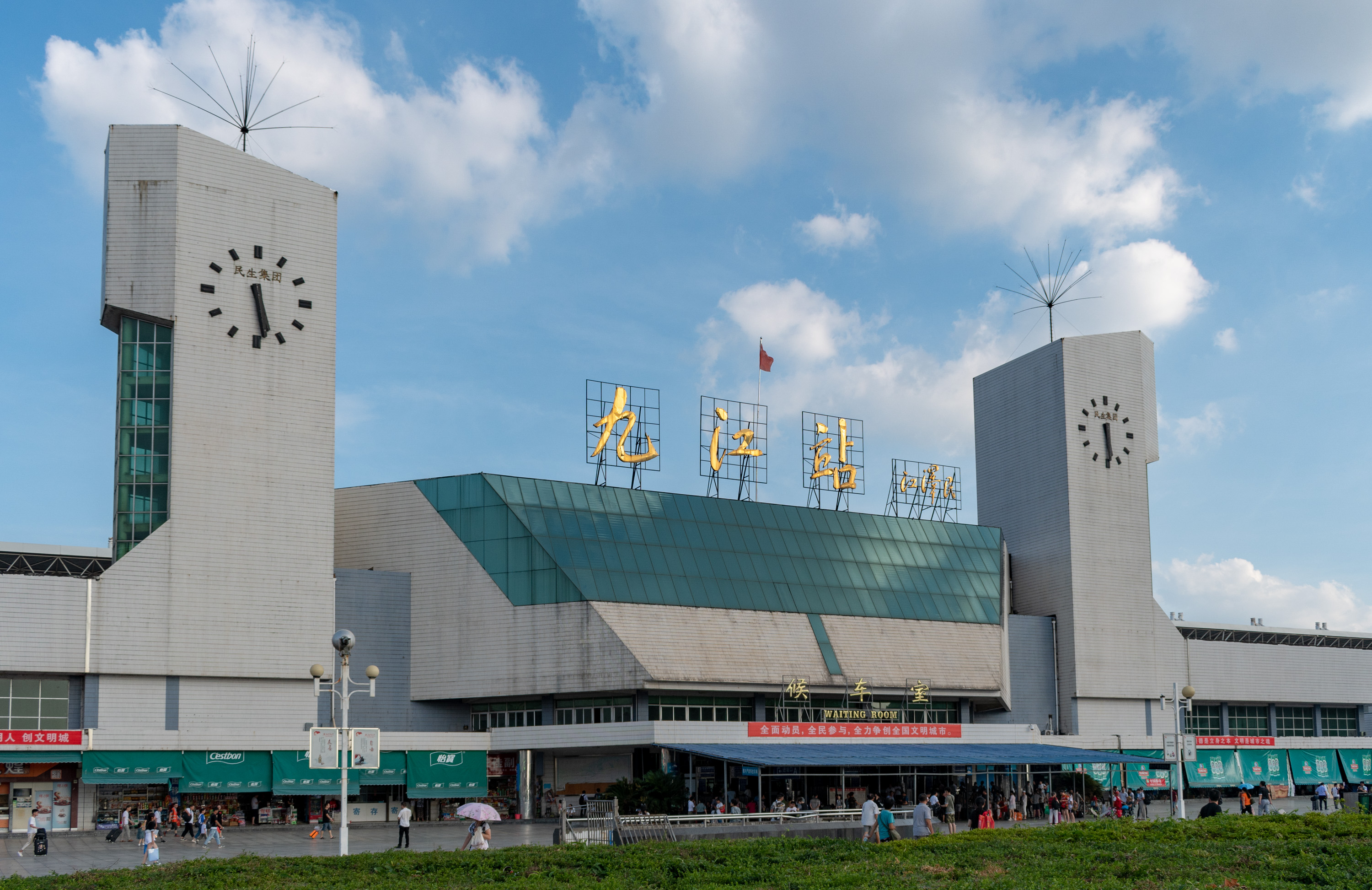 Jiujiang Station